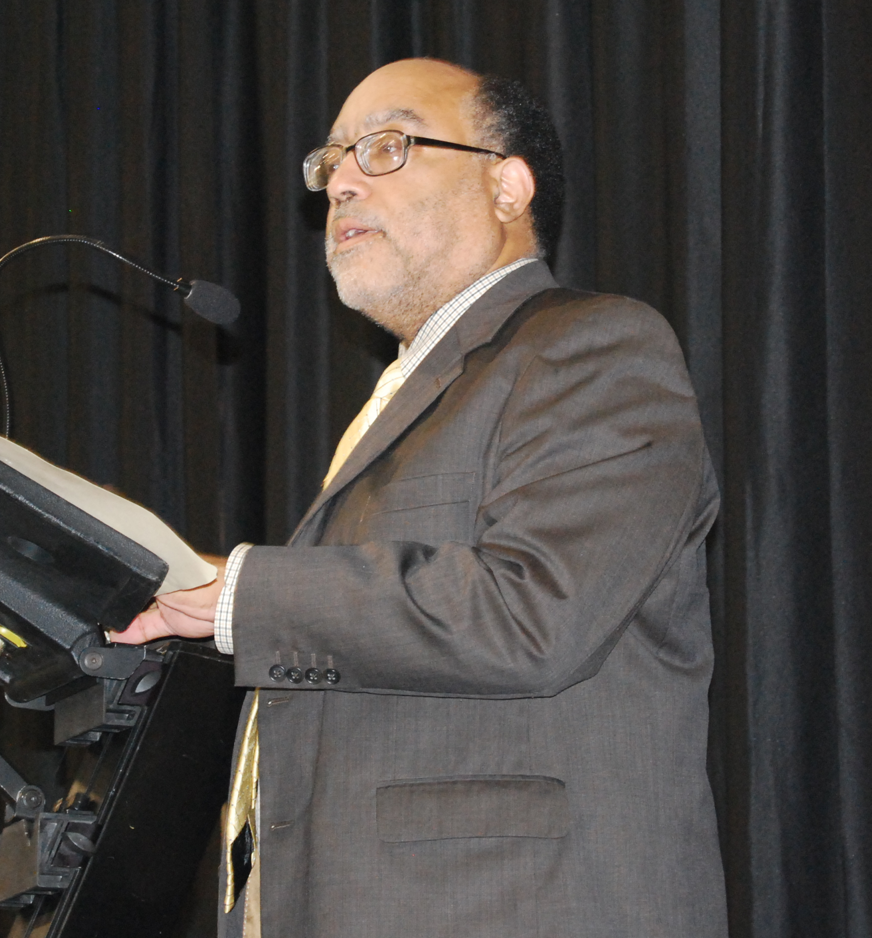 Georgia State Senator Vincent fort in 2009. Photo courtesy of aflcio, via Flickr. This file has been extracted from another file: Vincent Fort 2009.jpg